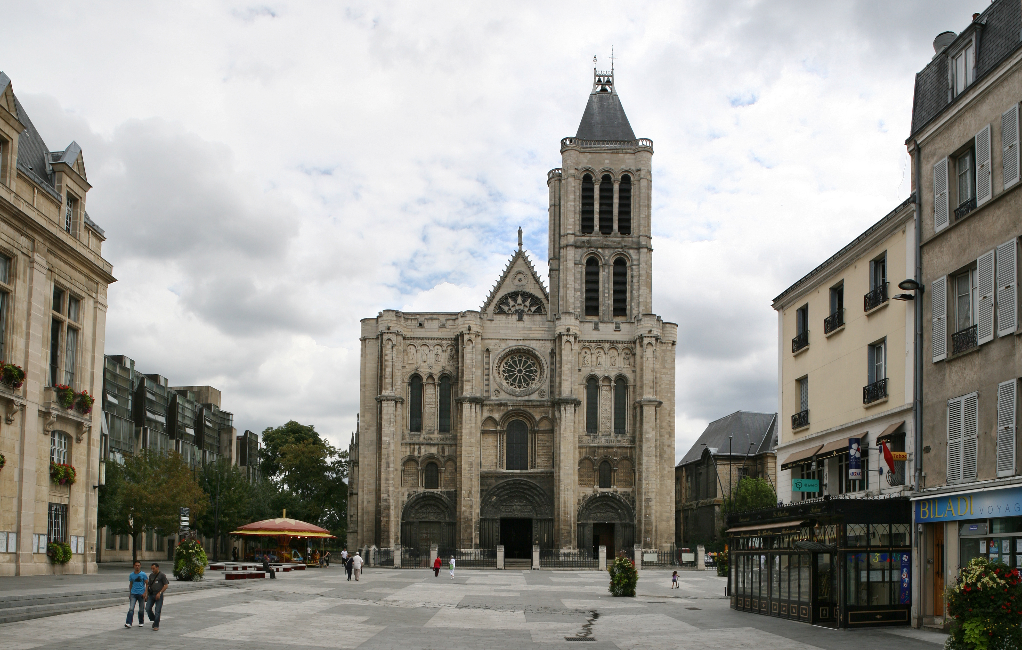 West facade of the Saint-Denis royal cathedral